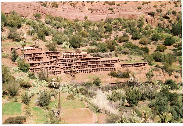 Beehive collective of Inzerki